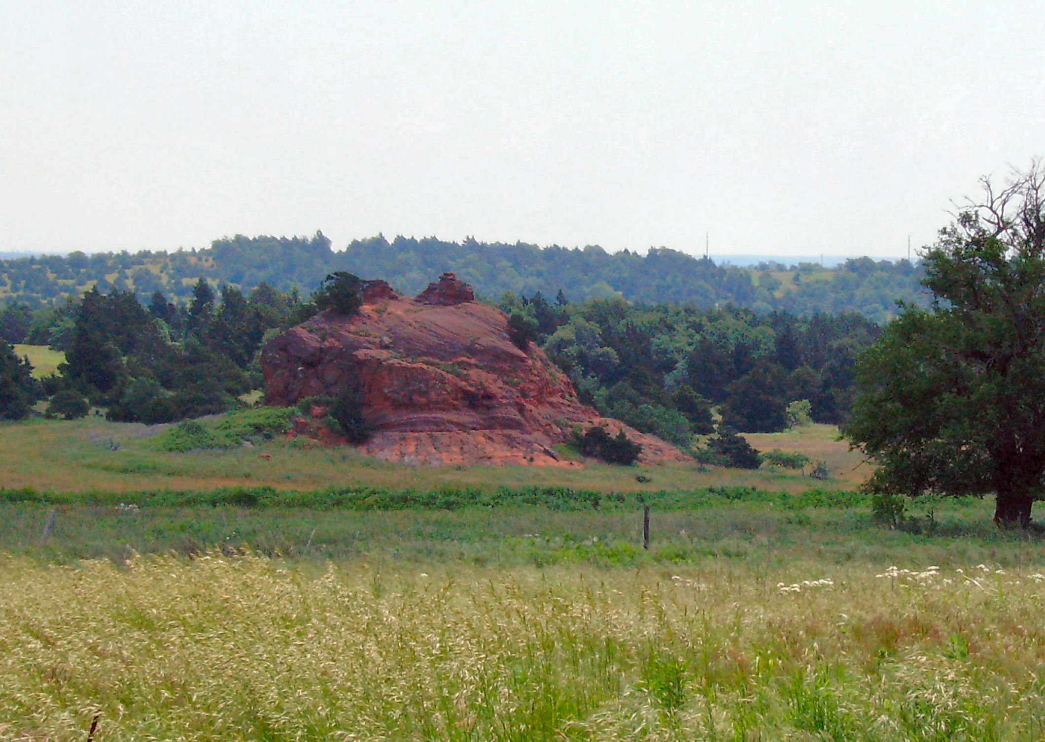 I made this image myself